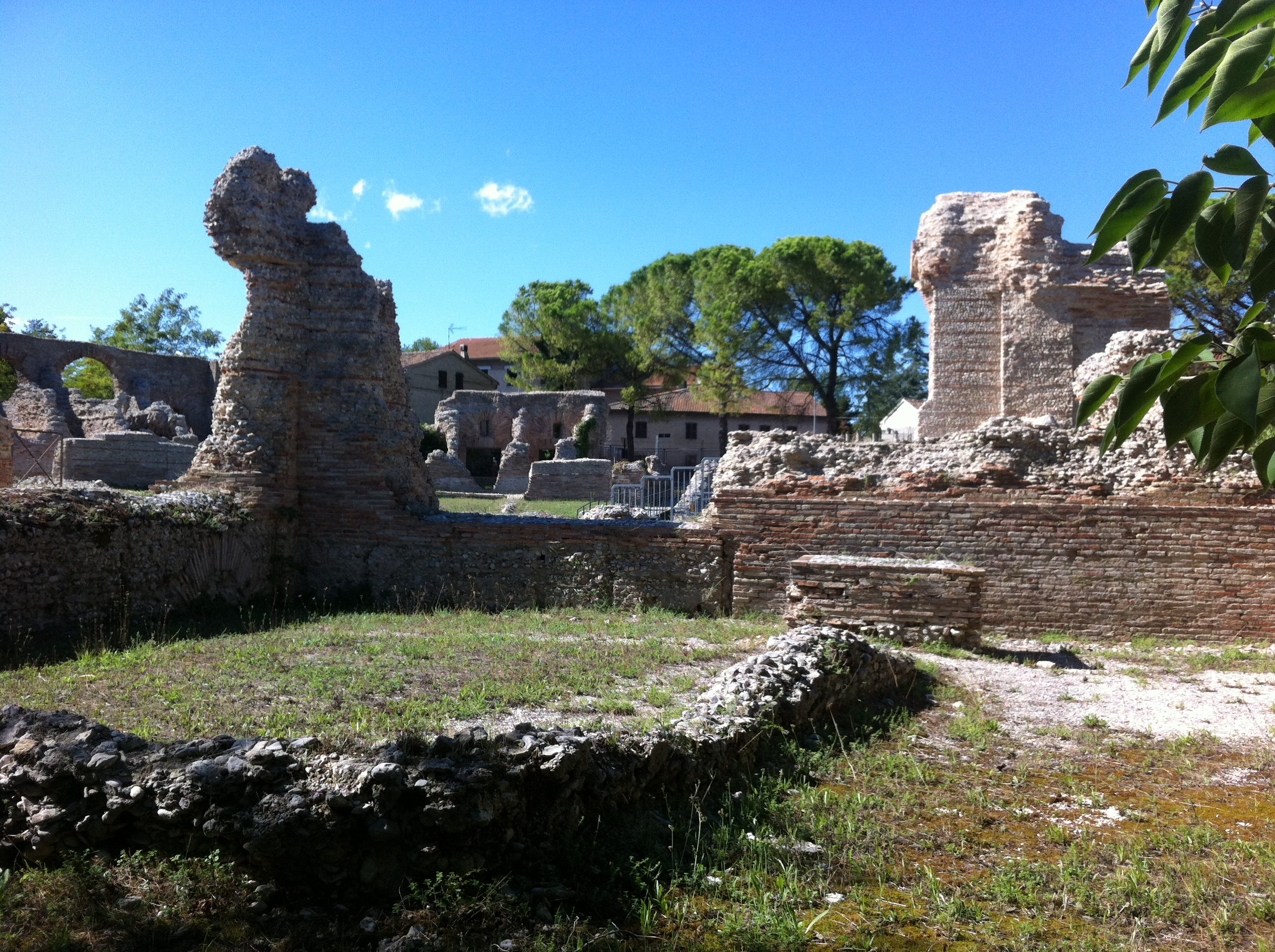 This is a photo of a monument which is part of cultural heritage of Italy.